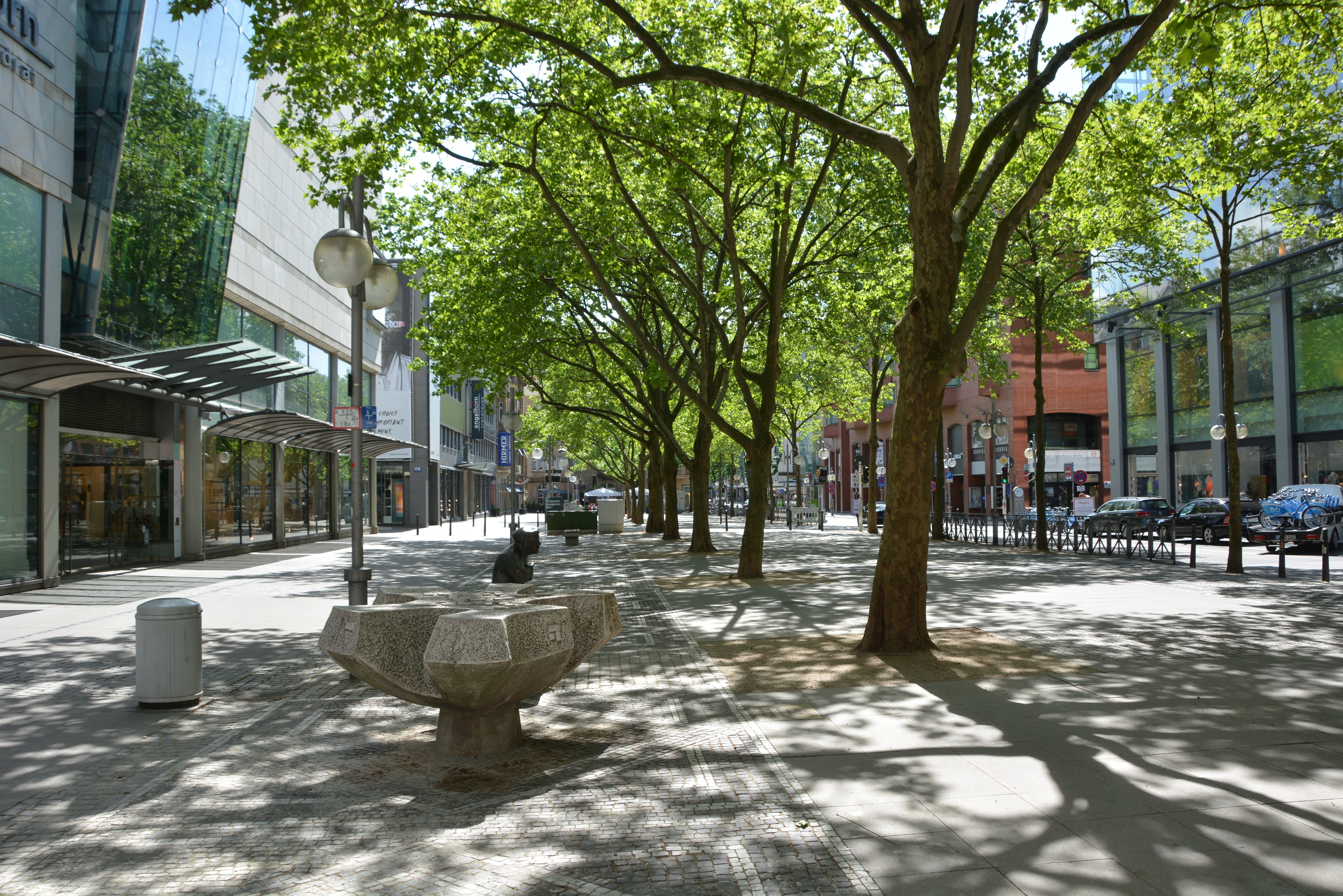 Kapuzinerplanken, squares O 5/O 6, Mannheim, Germany